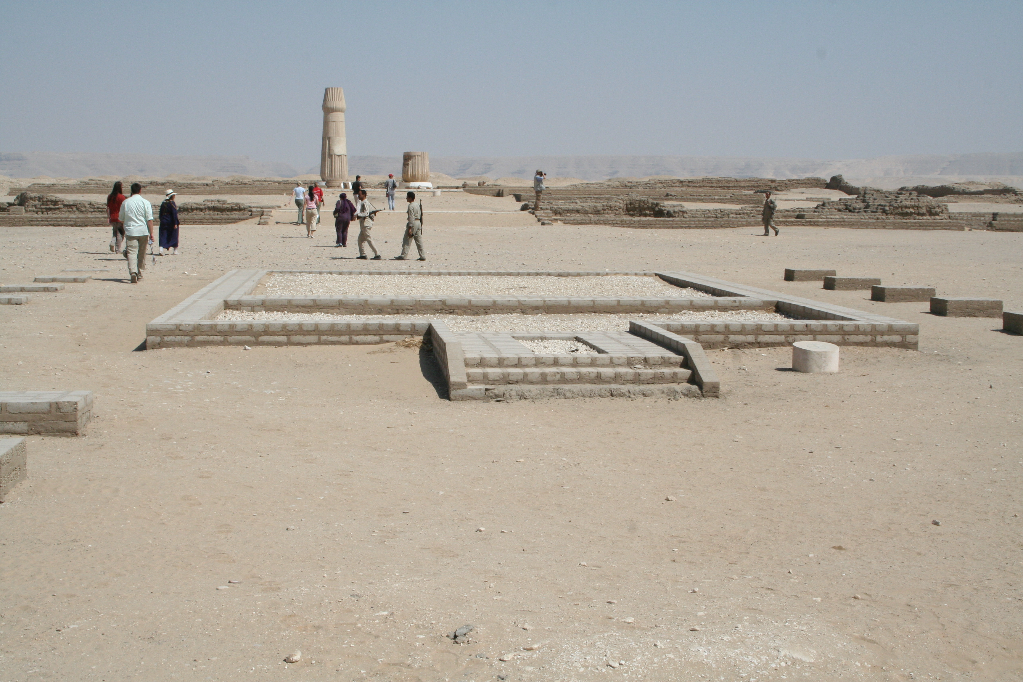 Small Temple of Aten at Tell el-Amarna